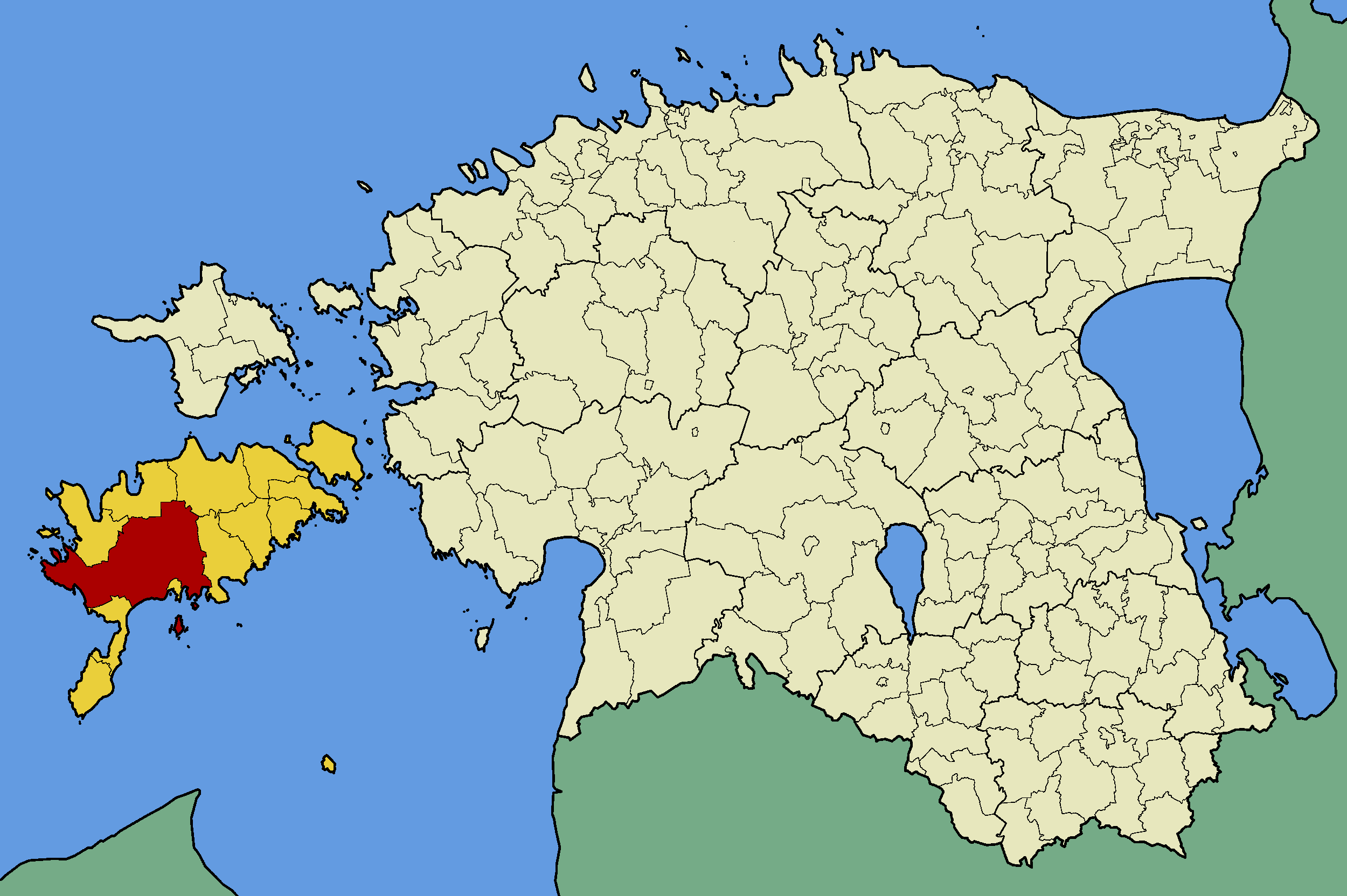 Map of Estonia with borders of municipalities (parishes). Saare county and Lääne-Saare municipality emphasized.